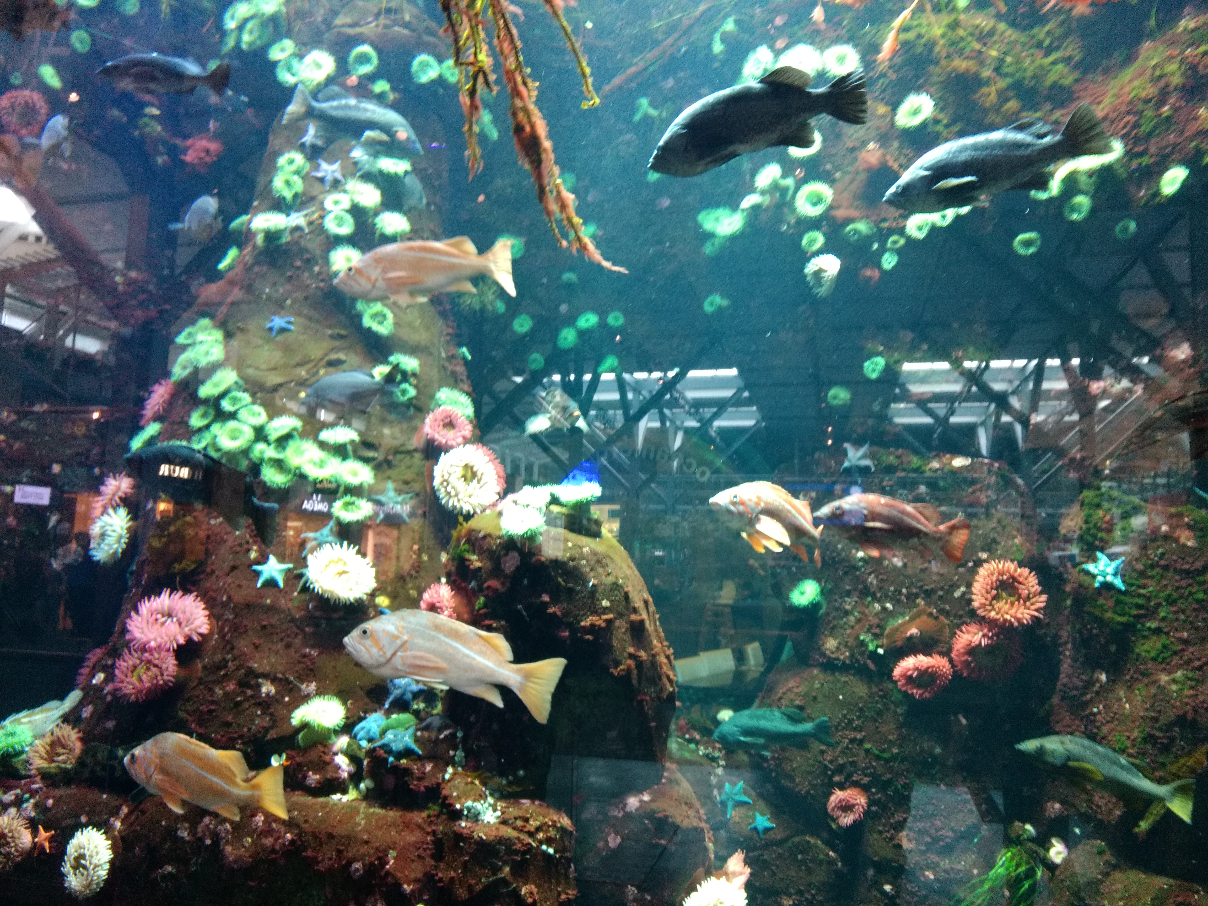 This photo was taken in the food court of the Vancouver International Airport.